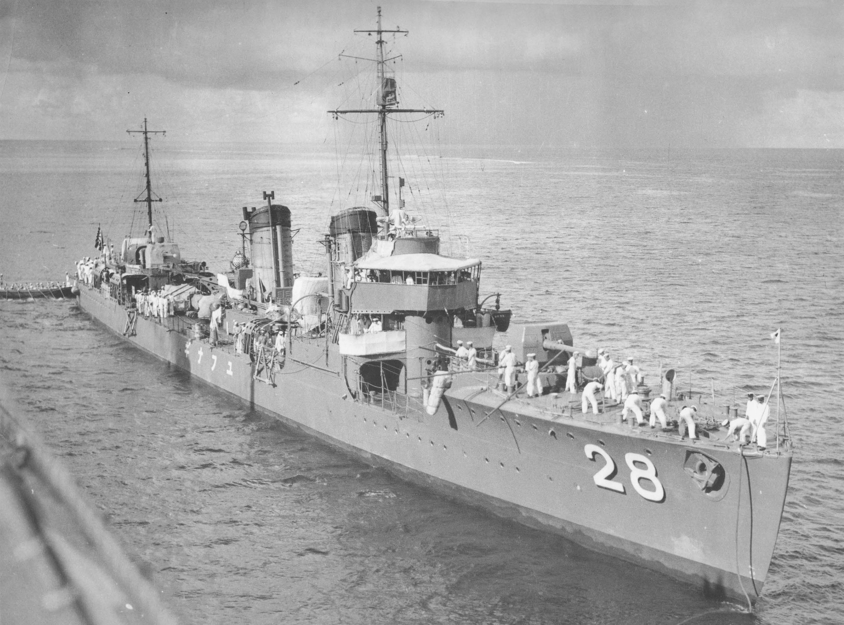 Imperial Japanese Navy destroyer Yunagi, the second Japanese destroyer to bear that name.